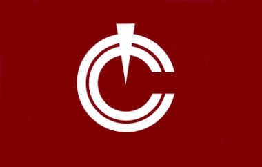 Flag of Toyo Kochi